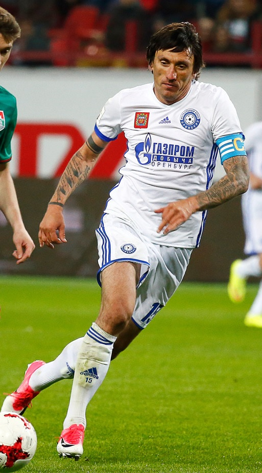 Dmitri Andreyev with FC Orenburg in a game against FC Lokomotiv Moscow.